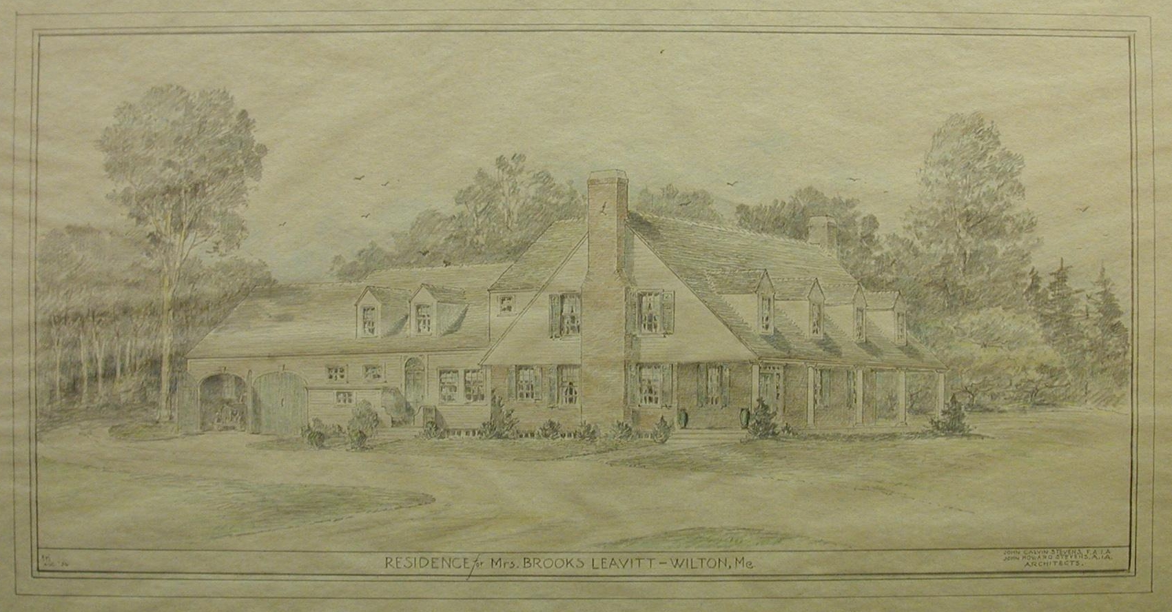 Plans by Portland, Maine, architect John Calvin Stevens for vacation home in Wilton, Maine, for L. Brooks Leavitt, Wall Street financier and Maine native. Leavitt eventually retired with his wife Elizabeth to his Wilton home.